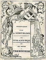 Theatre programme cover for an 1874 production of Cox and Box. This production appeared at the Gaiety Theatre during the week of 7 September 1874. The composer's brother, Fred Sullivan, played Cox, with Arthur Cecil as Box and J. G. Taylor as Bouncer. The evening commenced with Jacques Offenbach's A Mere Blind and ended with the 2nd and 3rd acts of the same composer's The Princess of Trebizonde.